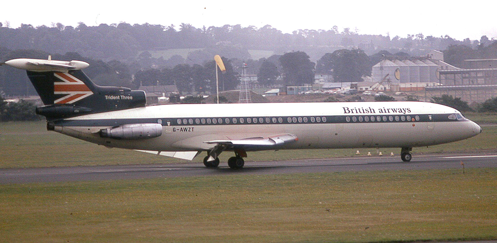 Flickr user: I saw this example at Edinburgh Airport (Called Turnhouse in those days) about 1974 or 1975. I was using my Nikkormat FTn camera and 50mm f2.0 AI lens - image cropped here.